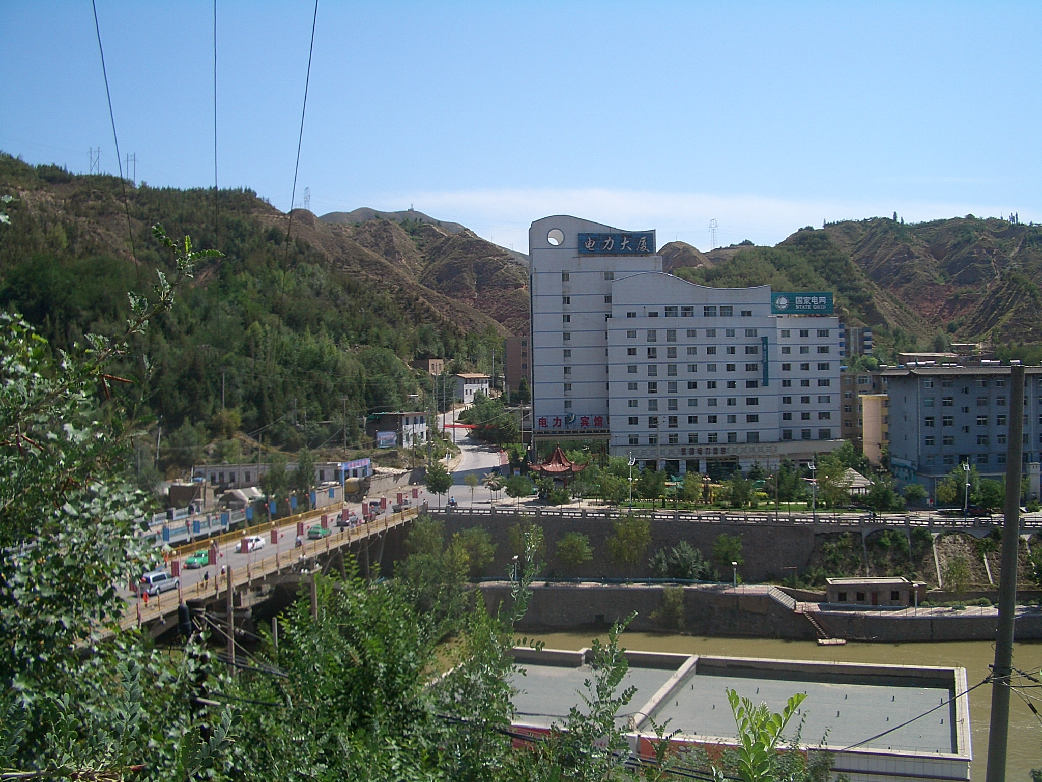 Views from a gazebo on a bluff on the right (northern) bank of the Yellow River, just east of Liujiaxia Town. One can look east toward the Liujiaxia Dam, or west toward the town